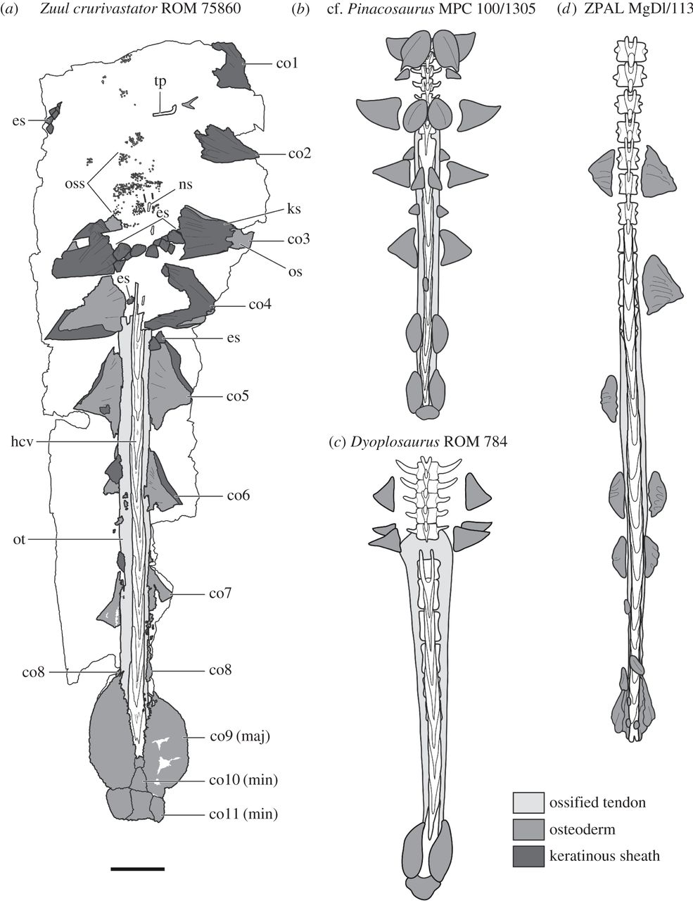 Interpretive illustration of the tail of Zuul crurivastator compared with other Mongolian and North American ankylosaurines, in dorsal view, showing differences in the morphology of the caudal osteoderms, and relationships between dermal and epidermal elements: (a) Z. crurivastator, ROM 75860, (b) cf. Pinacosaurus, MPC 100/1305, (c) Dyoplosaurus acutosquameus, ROM 784, (d) Ankylosaurinae indet. from the Nemegt Formation, ZPAL MgD I/113. Vertebrae are indicated in white, zones of ossified tendons are indicated by the lightest grey, osteoderms and ossicles are indicated by a medium grey, and epidermal osteoderm sheaths and scales are indicated by the darkest grey. Abbreviations are as follows: co, caudal osteoderm; co (maj), major osteoderm of the tail club knob; co (min), minor osteoderm of the tail club knob; es, epidermal scale; hcv, handle caudal vertebra; ks, keratinous sheath; ns, neural spine; oss, ossicle; ot, ossified tendons; tp, transverse process. Scale bar, 20 cm.